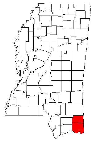 Map of Mississippi highlighting the Pascagoula Metropolitan Area; created using the GIMP. Made by User:Acntx.